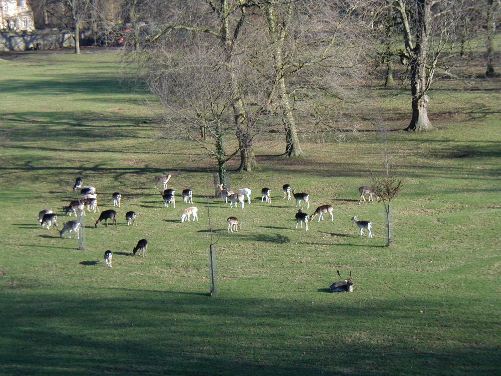 The deer in Magdalen College, Oxford. From